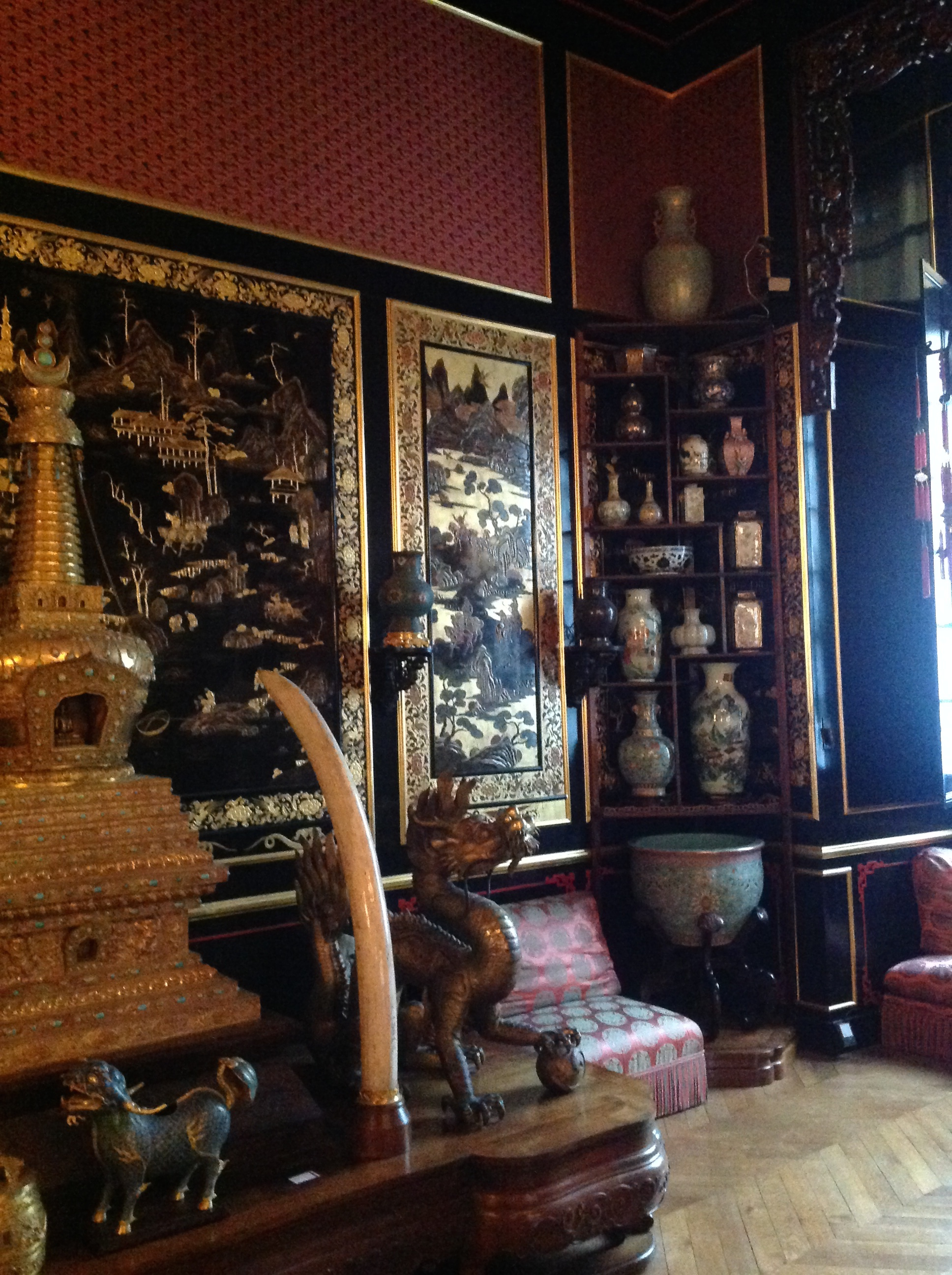 Interior of the Chinese Museum in the Museum of Fontainebleau